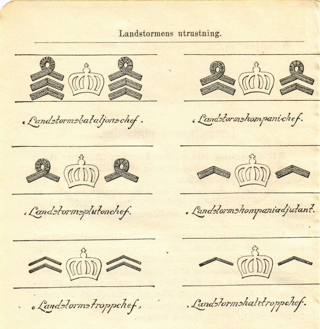 Chart of Swedish rank insignia for Landstormen 1911